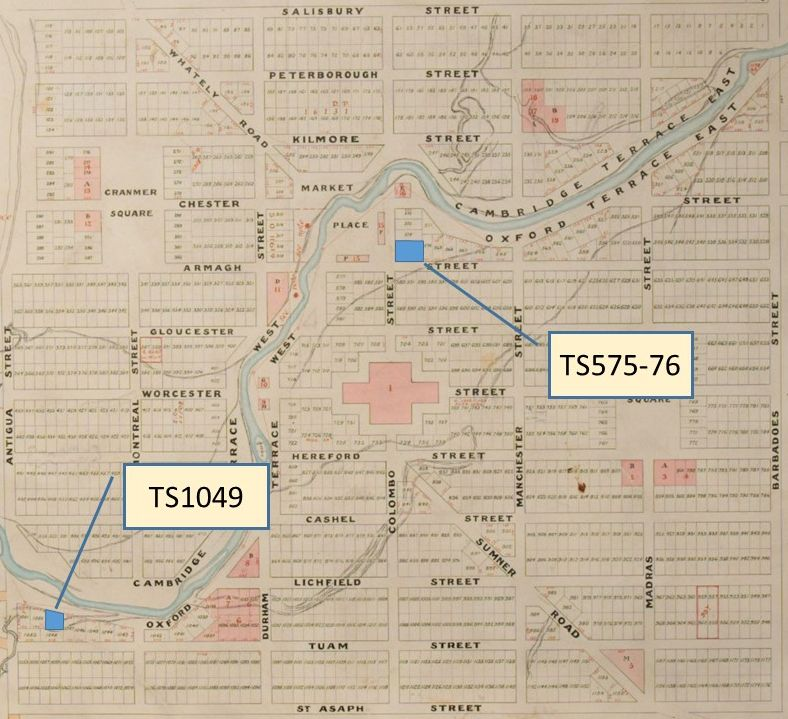 Map showing property purchase by Longden & Le Cren